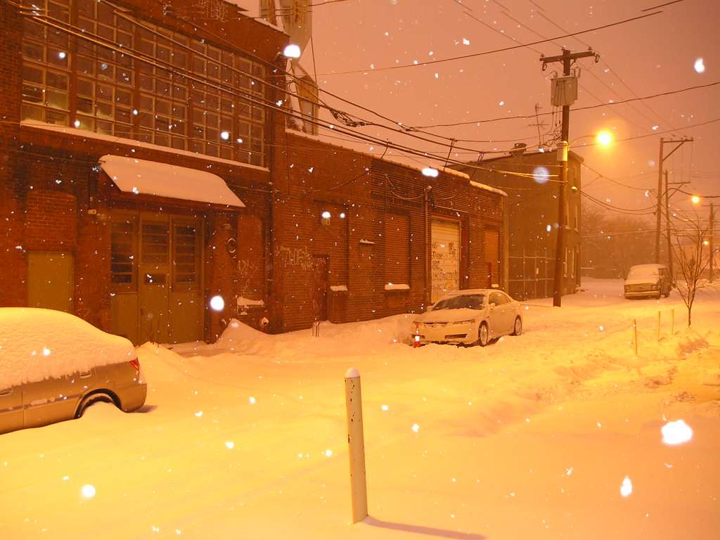 Ogden St. in North Philly.